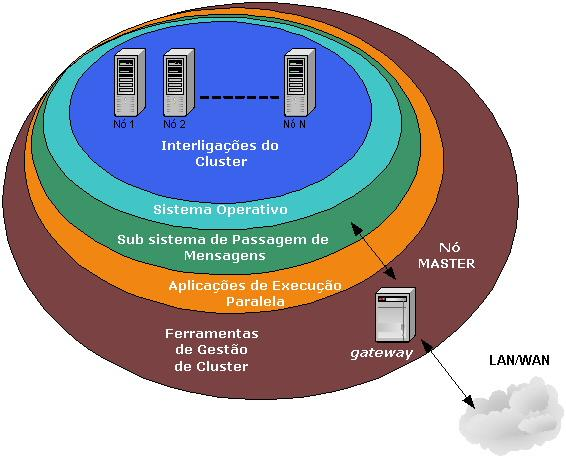 Description Distributed processing system - Concept Overview Source/Author Nuno Tavares